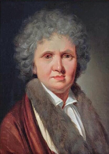 Portrait of Louise-Élisabeth de Cröy.